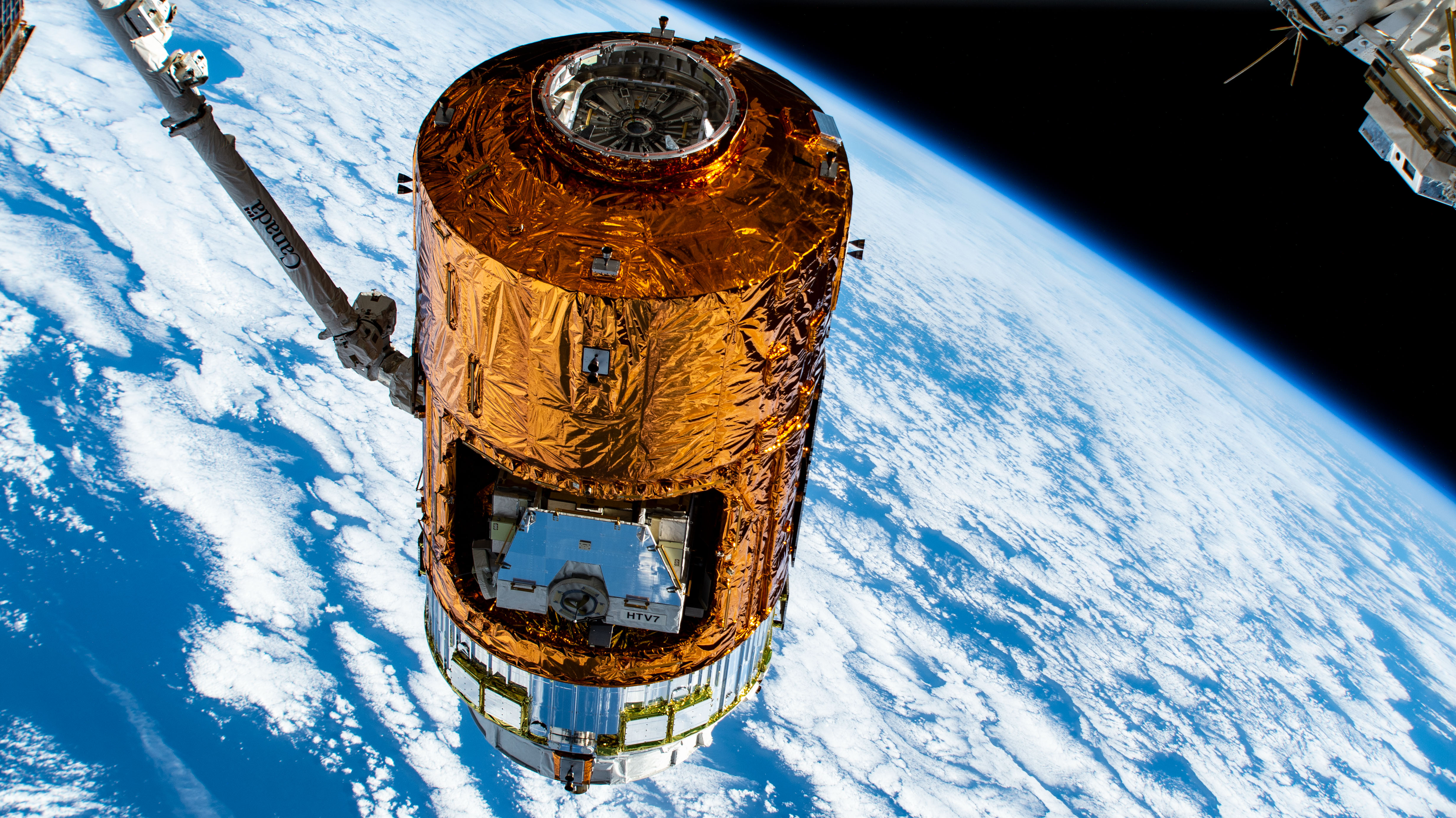 Japan's H-II Transfer Vehicle-8 (HTV-8) is pictured in the grips of the Canadarm2 robotic arm after ground controllers remotely detached the HTV-8 from the International Space Station's Harmony module. NASA astronauts Christina Koch and Jessica Meir would command the Canadarm2 to release the HTV-8 after a 34 day cargo mission at the orbiting lab.